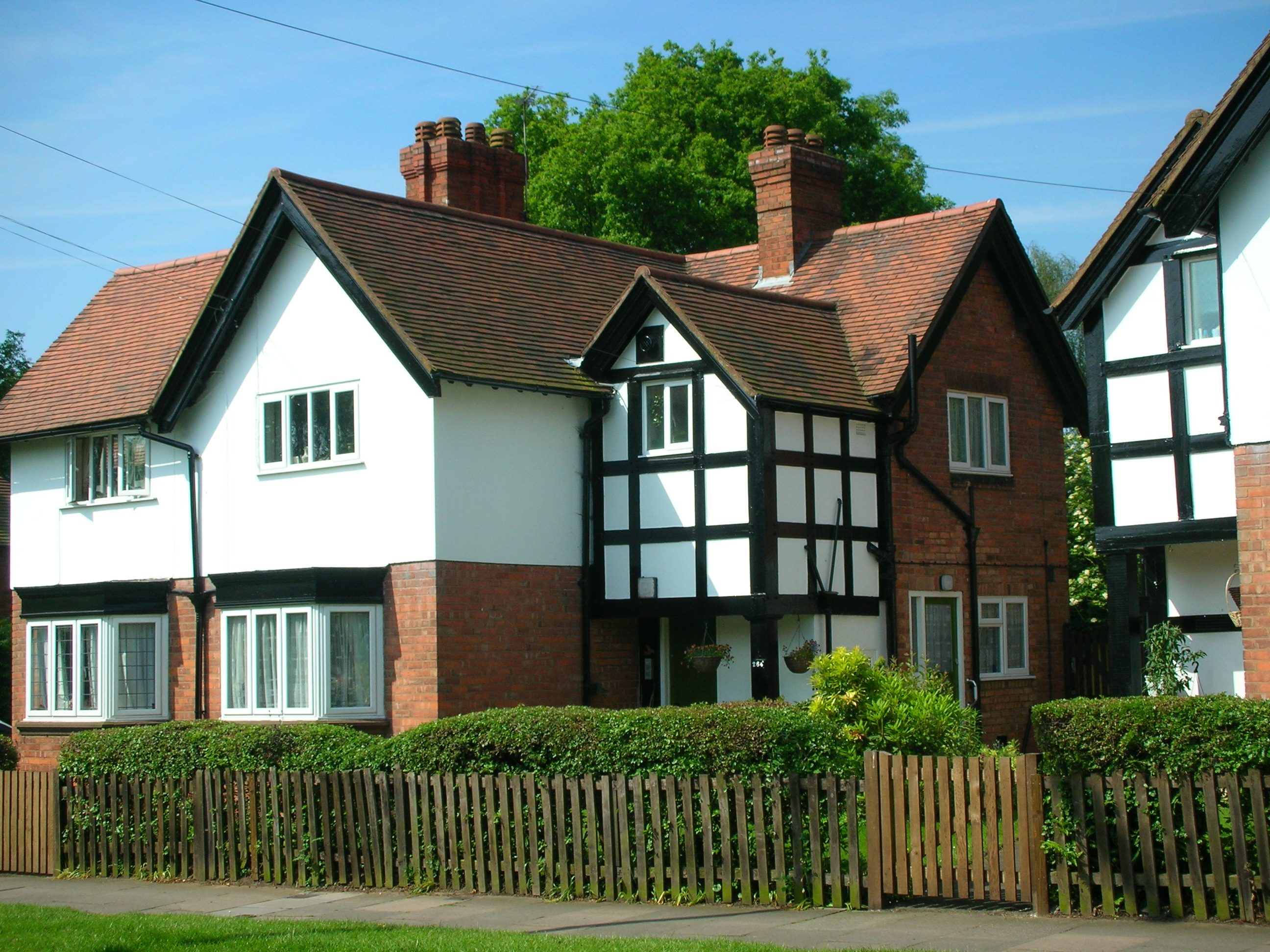 264 Wake Green Road, Birmingham, England. J. R. R. Tolkien's first home in England, aged 4-8.